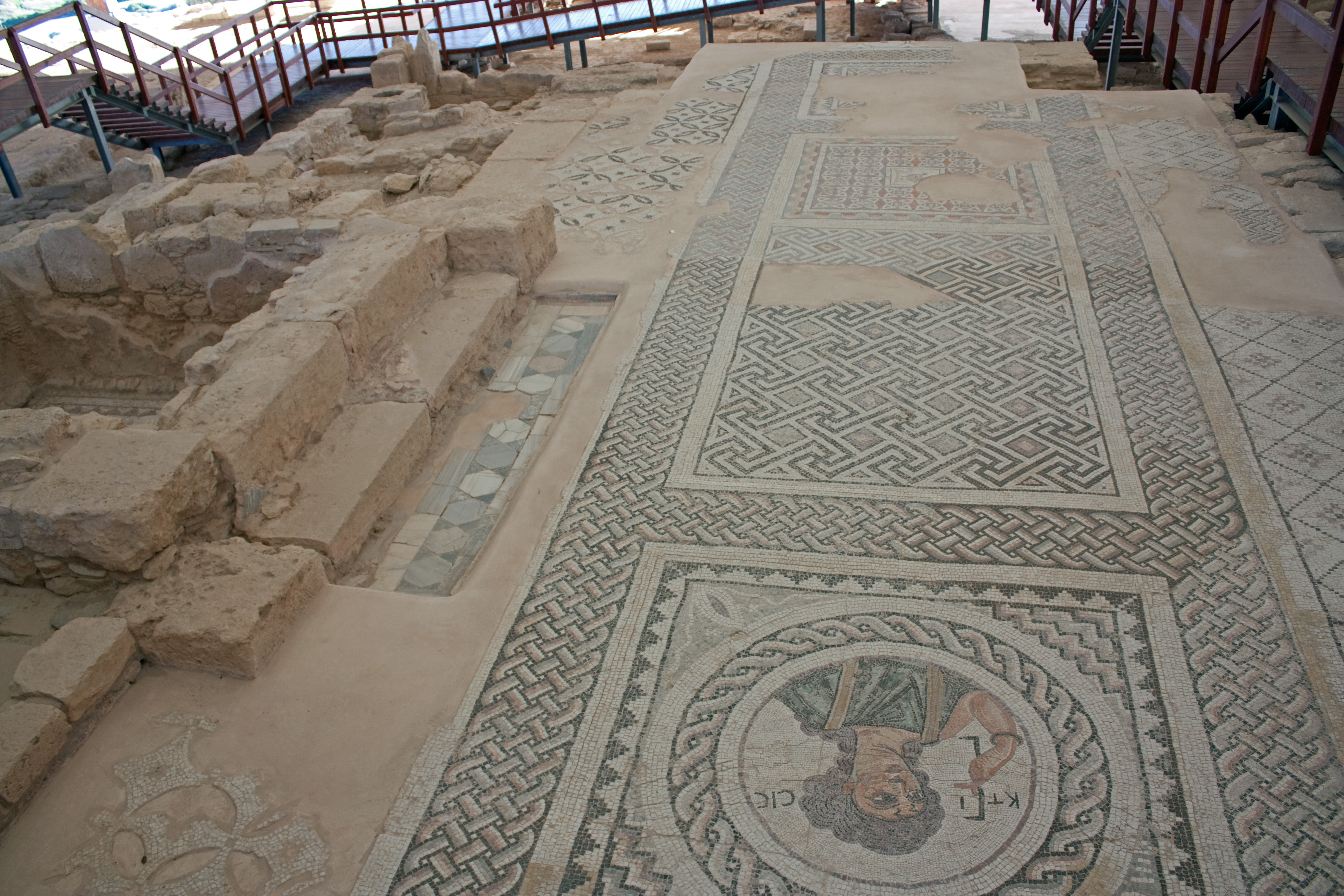 Mosaic in the House of Eustolios in Kourion, Cyprus.